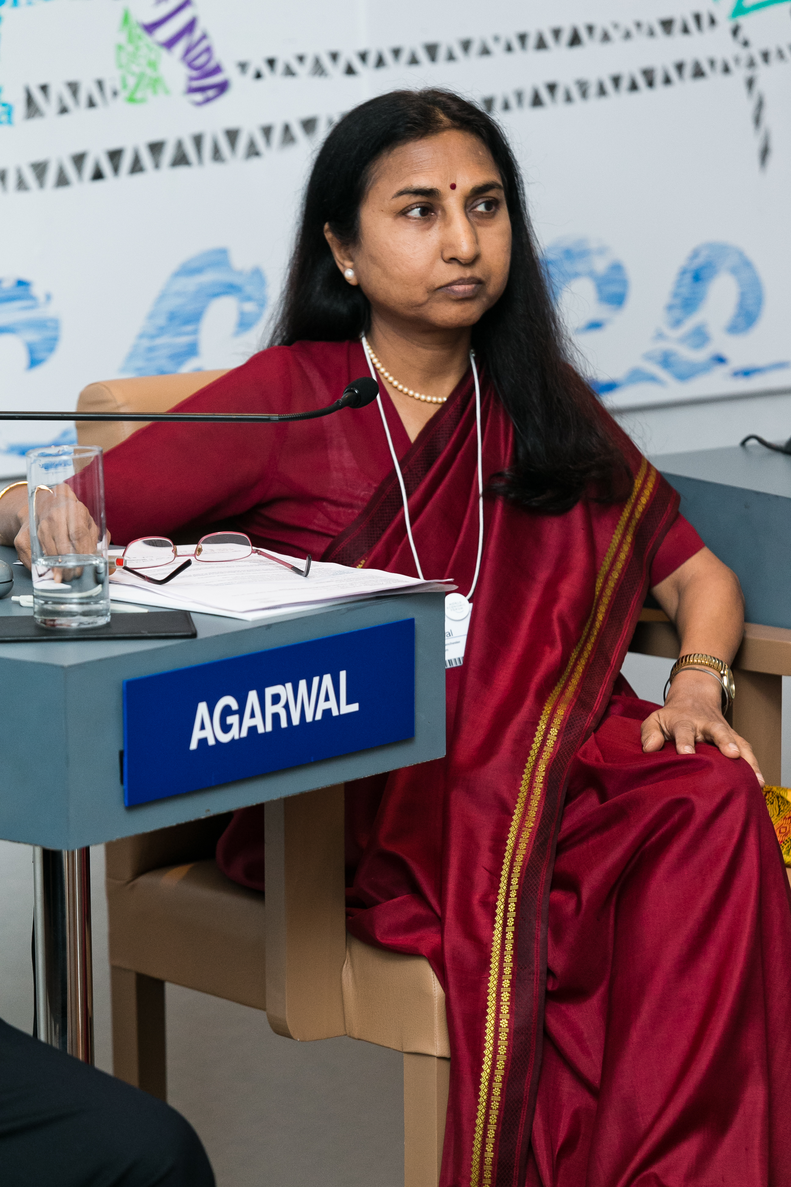 Bina Agarwal, professor of development economics at the University of Manchester (World Economic Forum on India 2012).